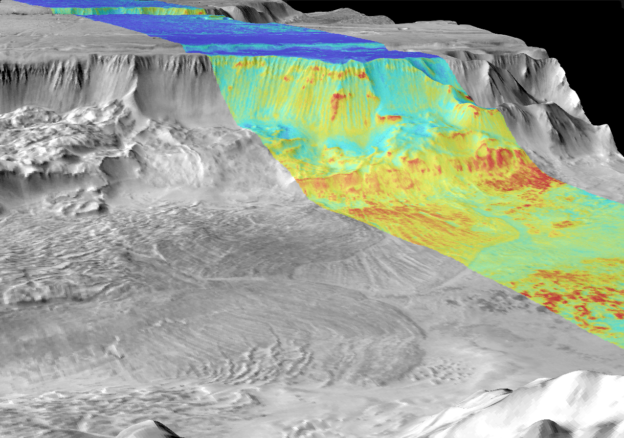 Composed image of mars terrain out of two infrared images taken by Mars Odyssey.